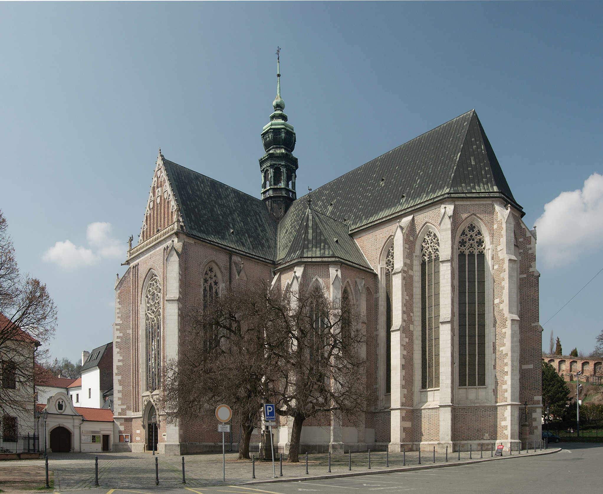 Old Brno - Basilica Assumption Virgin Mary - St. Thomas Abbey